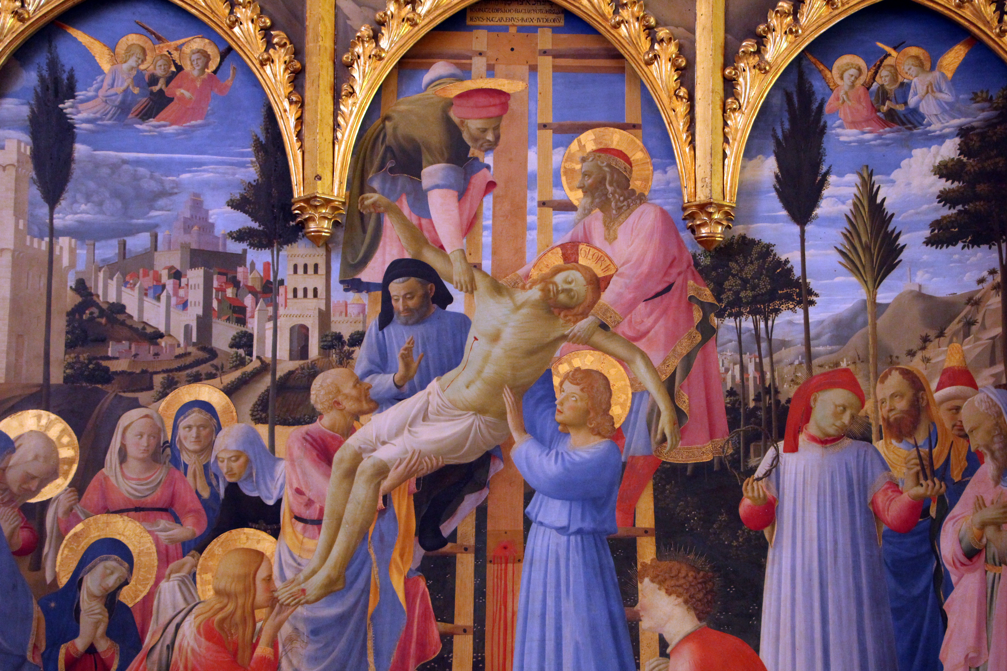 Descent from the Cross by Angelico